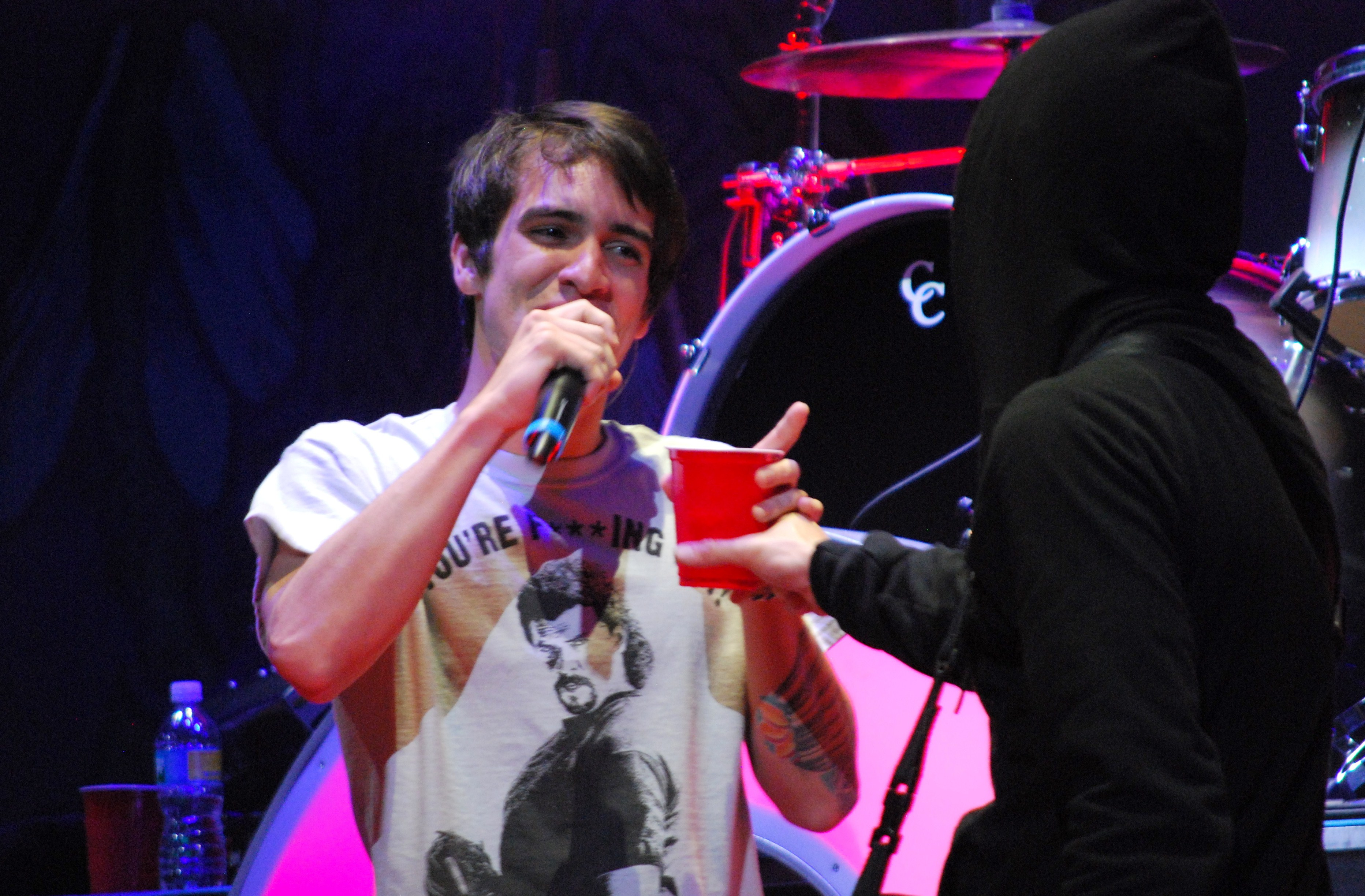 Fall Out Boy performing with Brendon Urie in Tinley Park, Illinois